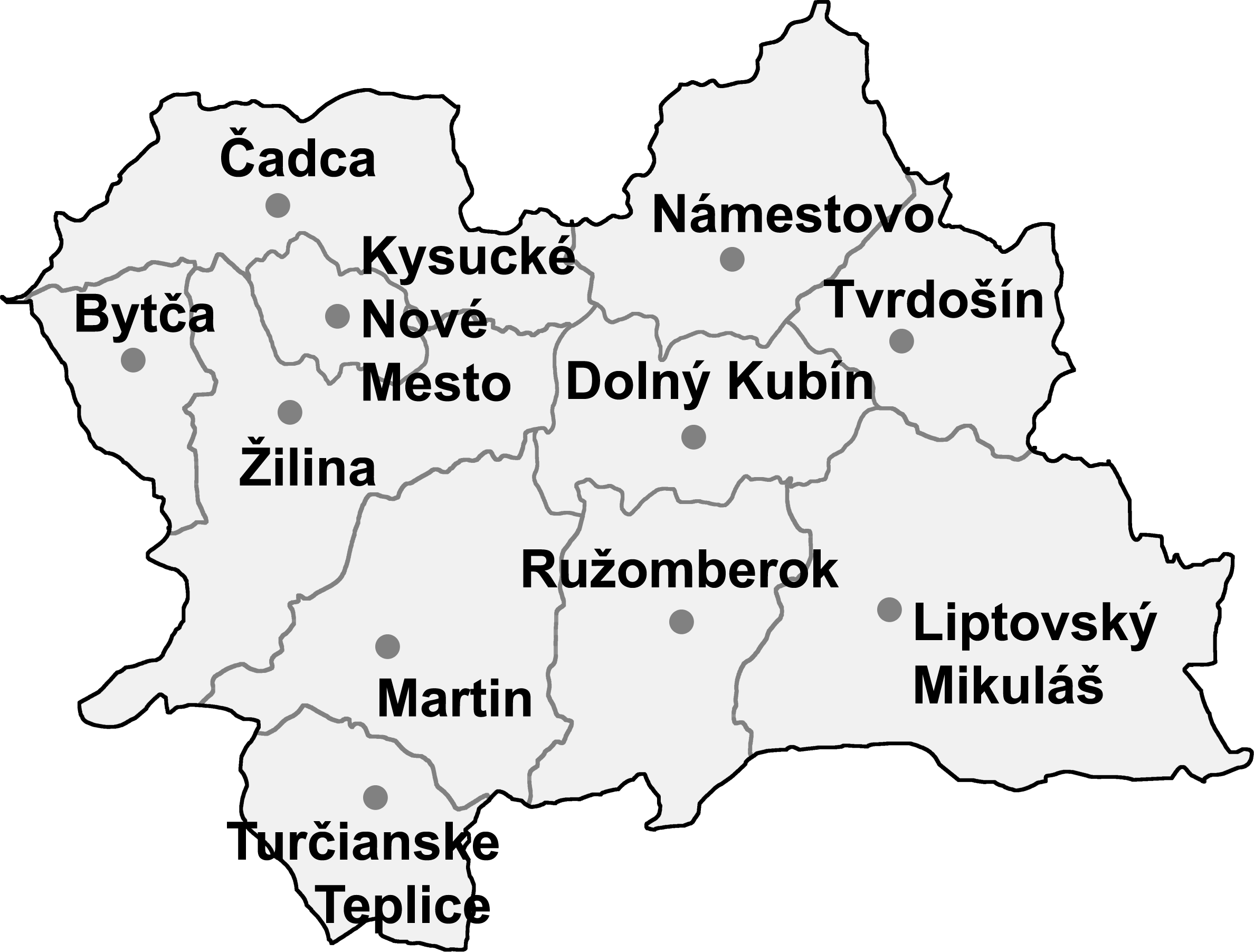 Map of Žilina Region (kraj) with districts (okresy), in northern Slovakia.